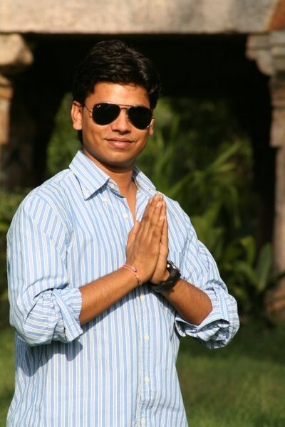 Kiran Verma in Indian style of greeting people.